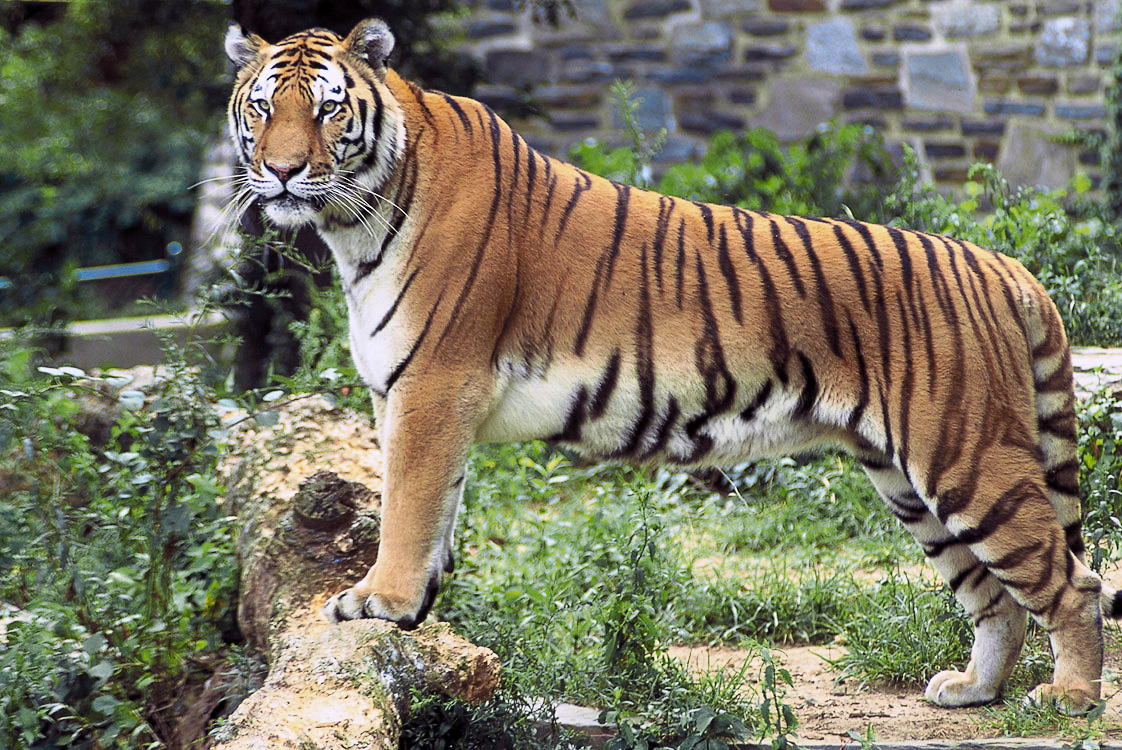 Enhanced version of Image:Panthera tigris tigris.jpg Image taken from Tiger3.jpg at German Wikipedia. Last contributor was User:Darkone 17:28, 9. Mai 2005 User:Darkone 1122 x 750 (480095 Byte) ( PD )